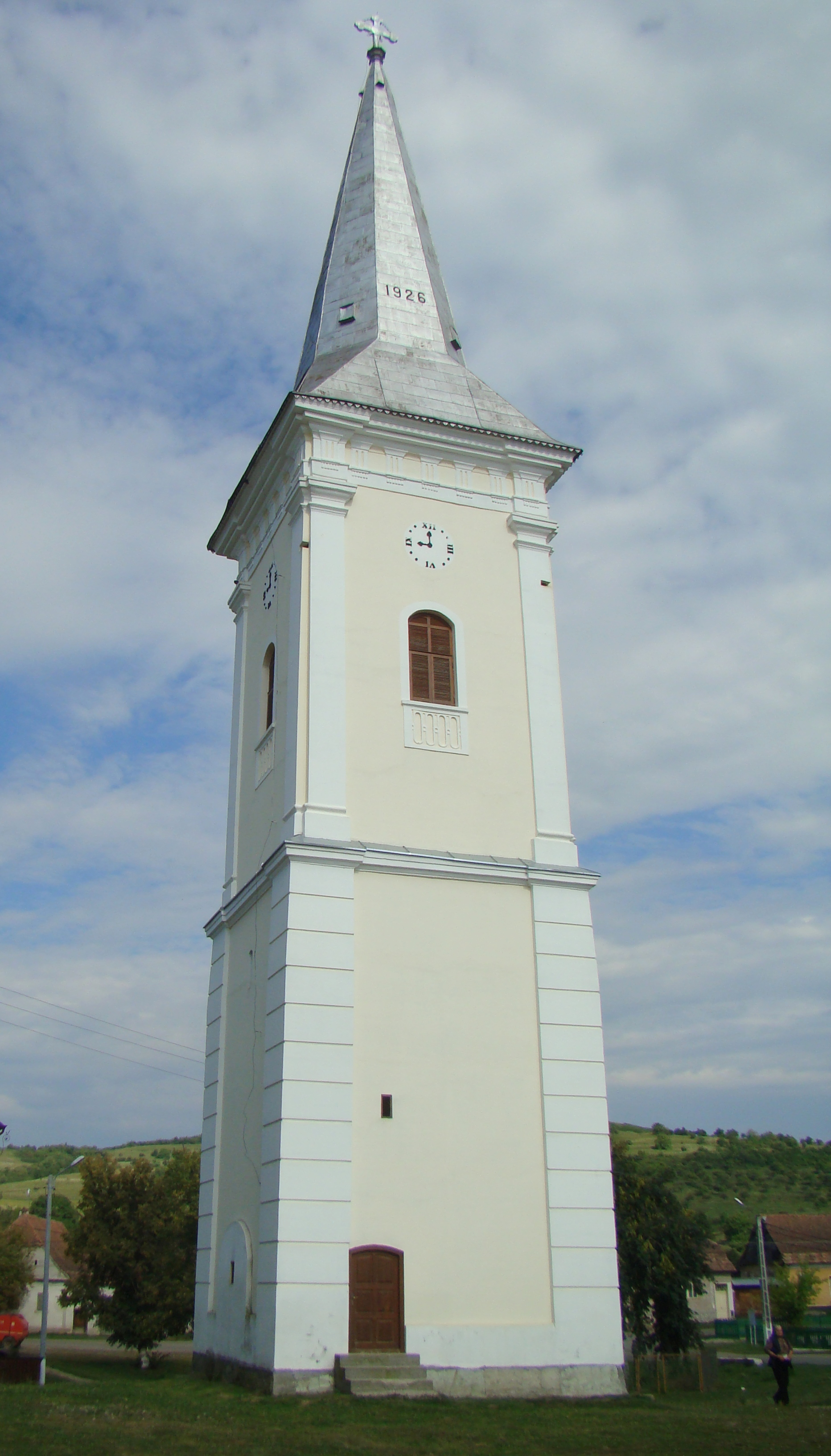 Lutheran church in Petriș, Bistrița-Năsăud county, Romania